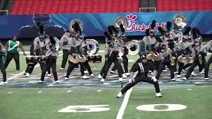 Band